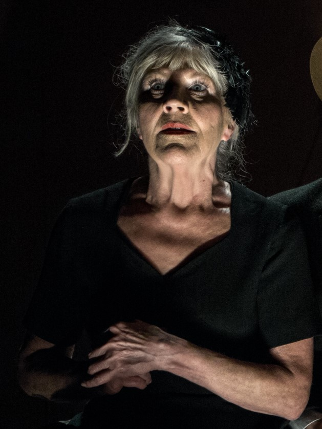 Lisbeth Gajhede in the Copenhagen theater Folketeatret's production of the play "Lille mand hvad nu?" (Kleiner Mann – was nun?) bases on the novel by Hans Fallada.